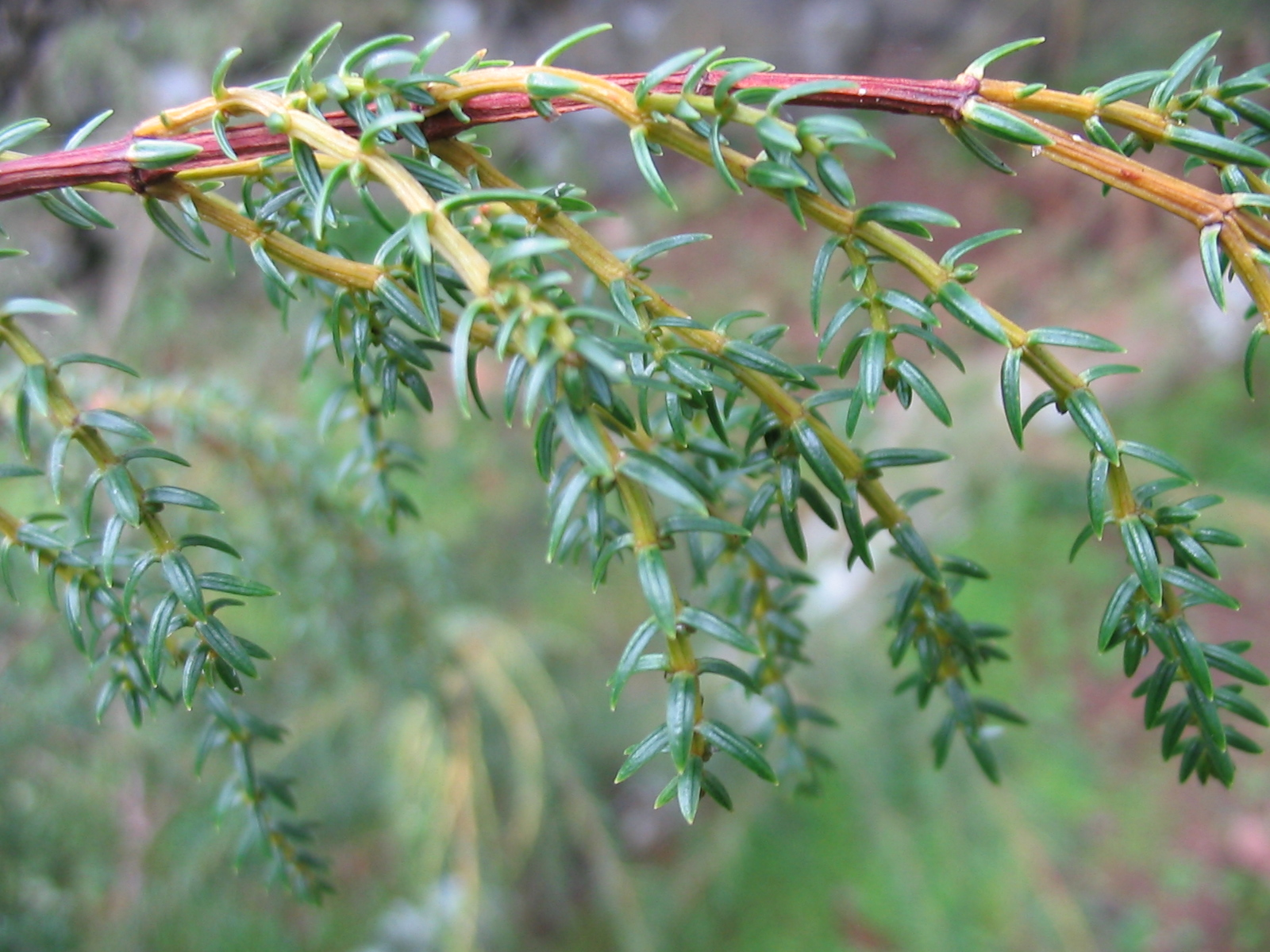 Juniperus brevifolia - Leafs